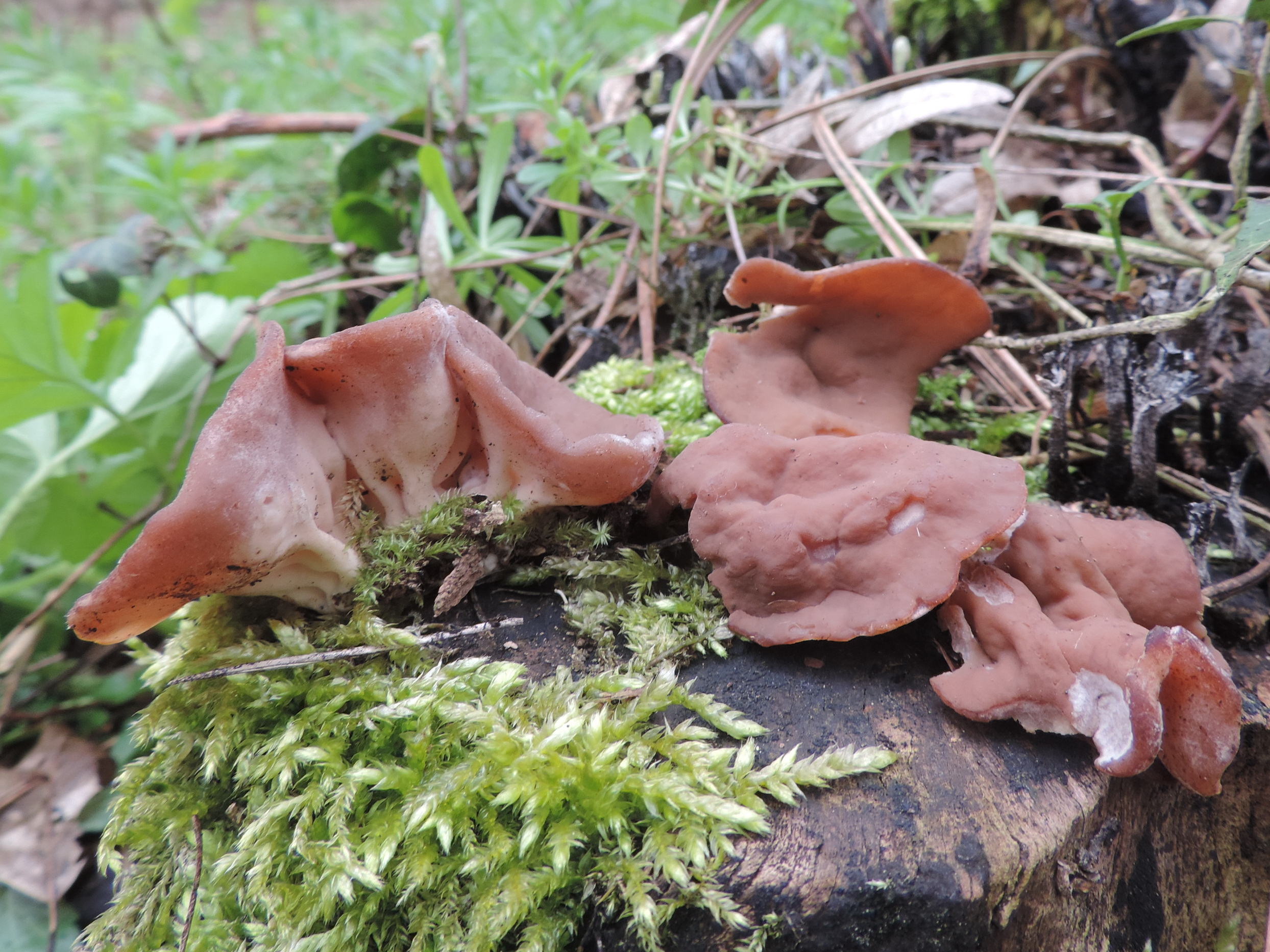 Discina aniclis (Discina perlata, gyromitra perlata). Český kras (Bohemian karst), Central bohemia, the Czech republic